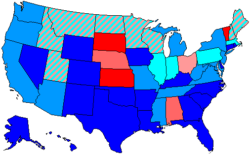 Summary of party control of U.S. house seats in the 89th United States Congress following the 1964 election. Stripes indicate a tie between two or more parties. Legend: 80.1-100% Democratic seat majority 60.1-80% Democratic seat majority 60% or less Democratic seat plurality 60% or less Republican seat plurality 60.1-80% Republican seat majority 80.1-100% Republican seat majority